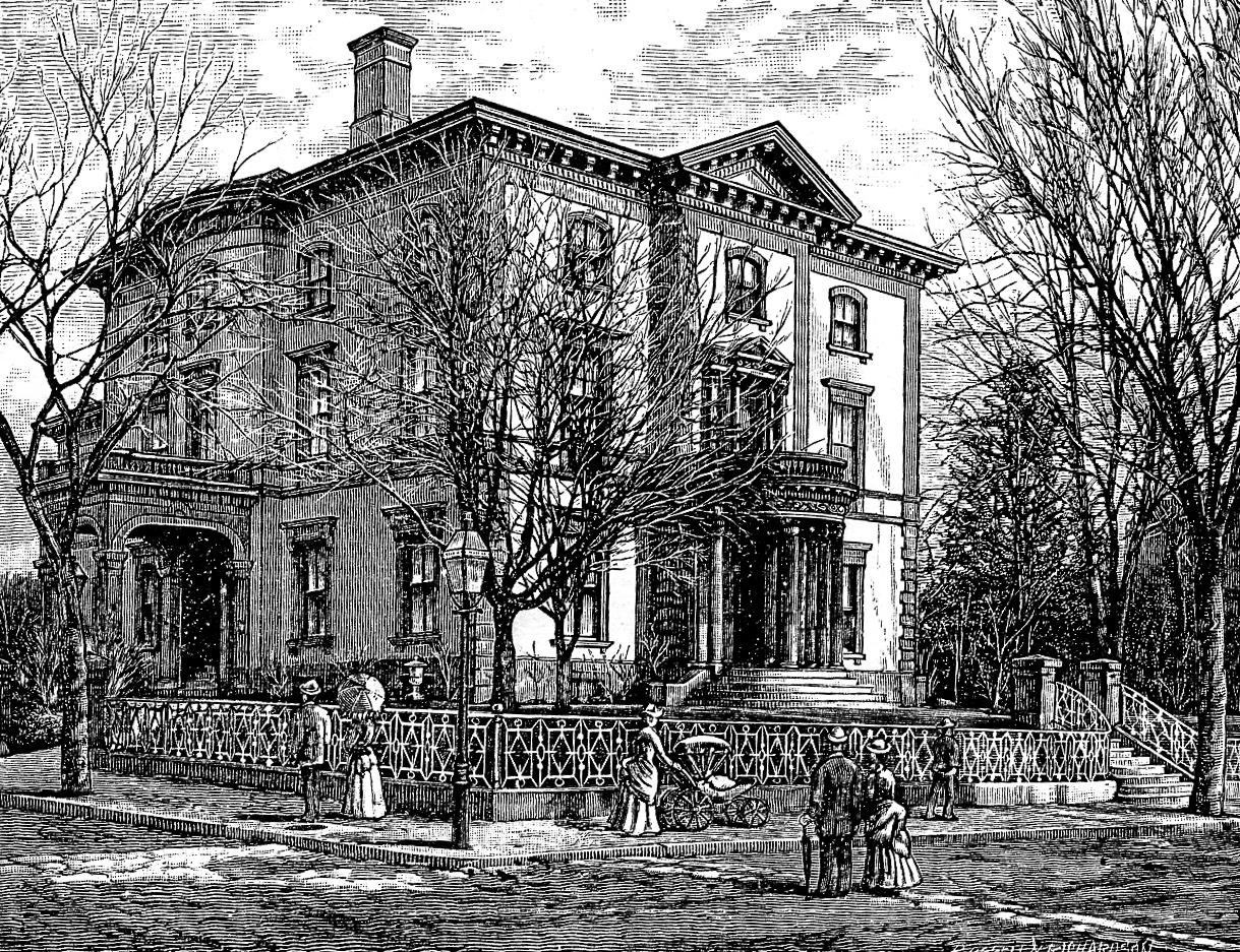 Engraving from The Providence Plantations for 250 Years, Welcome Arnold Greene, 1886.